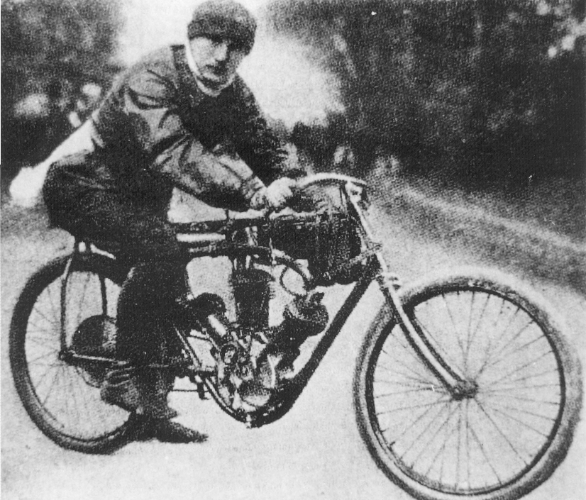 Image is more than sixty years old